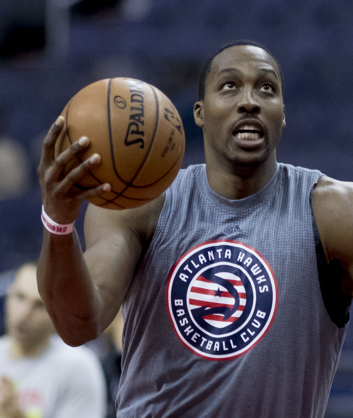 Hawks at Wizards 11/4/16